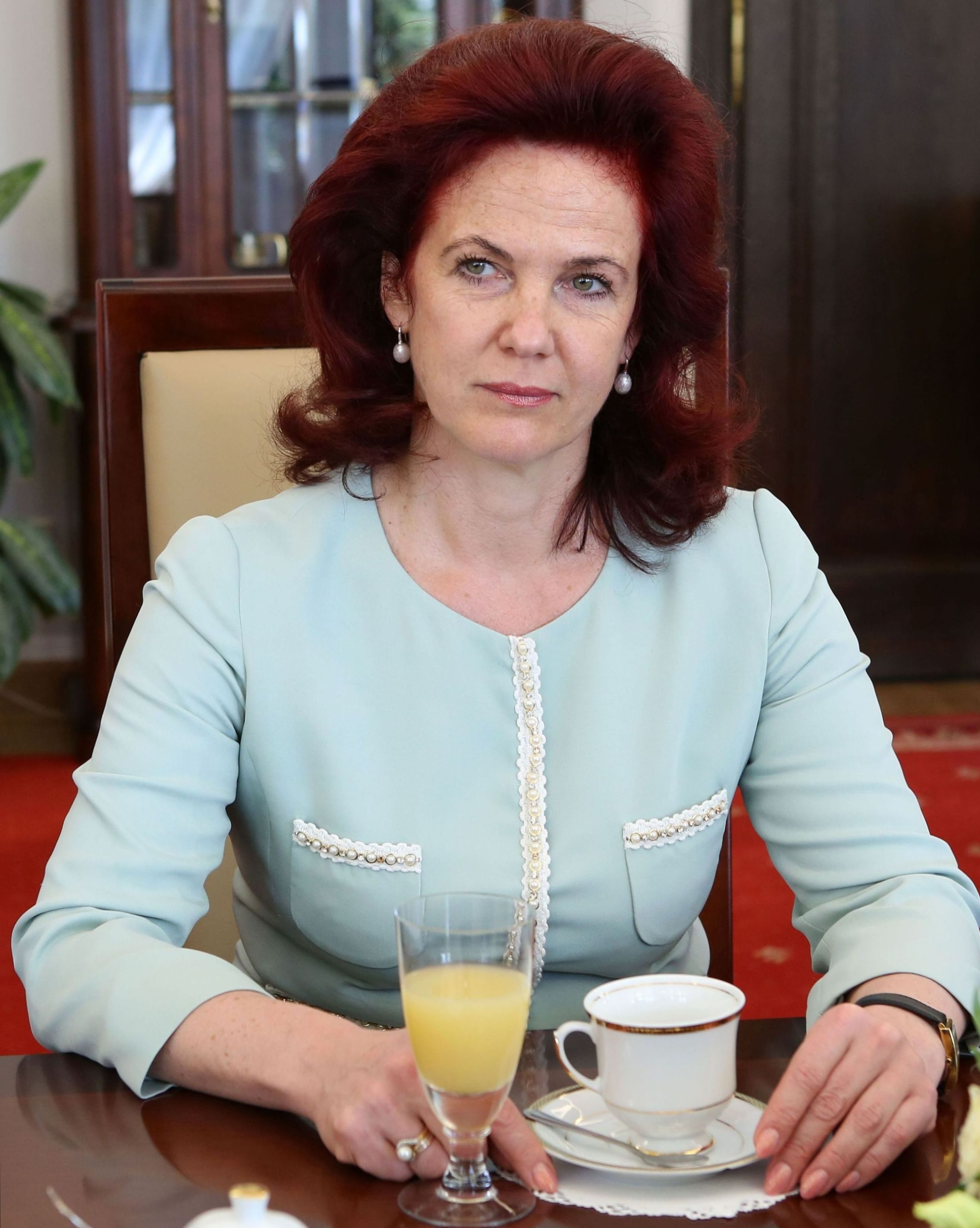 Speaker of the Saeima of Latvia Solvita Āboltiņa in the Polish Senate